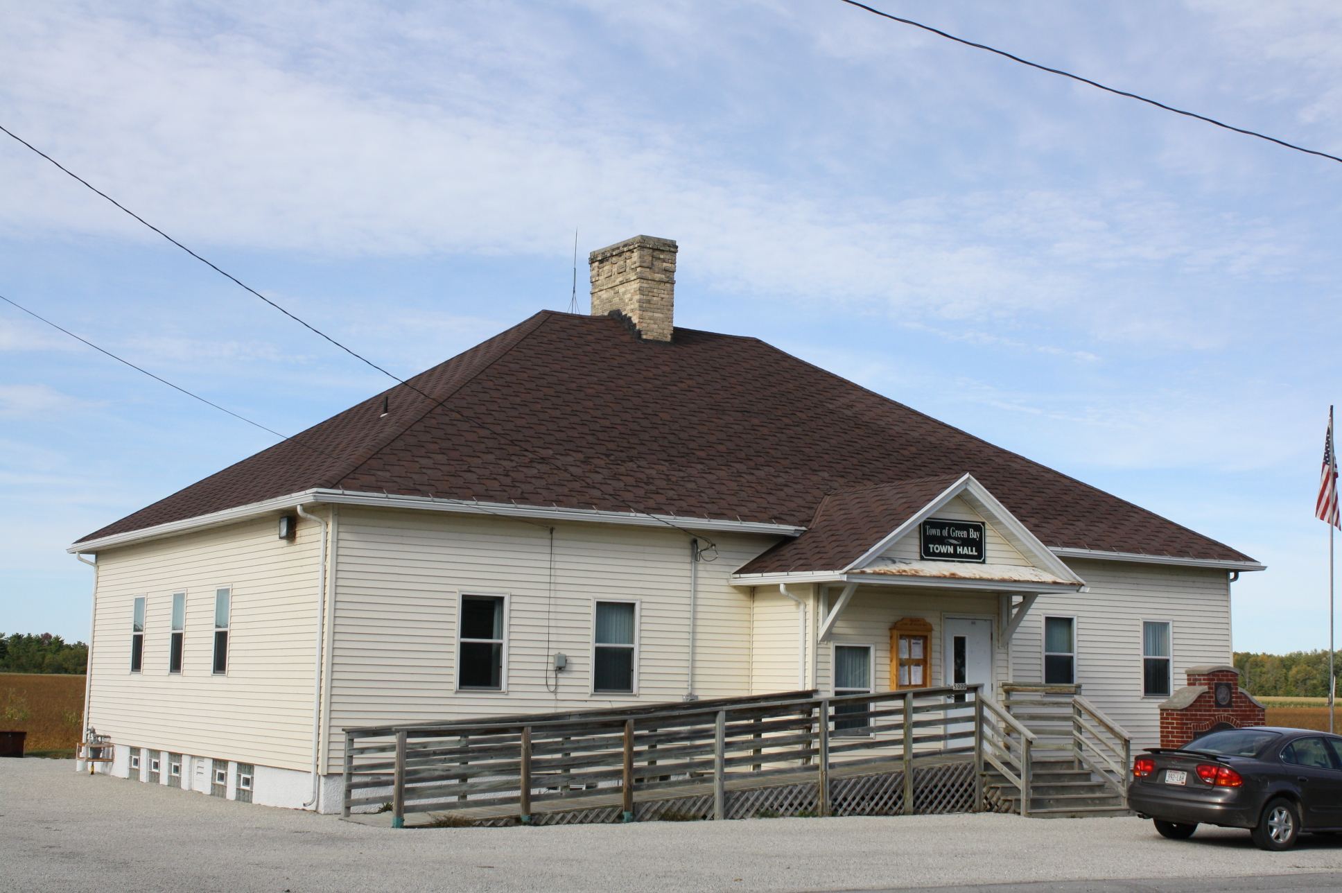 Looking north at the town hall for Green Bay (town) in Champion, Wisconsin.